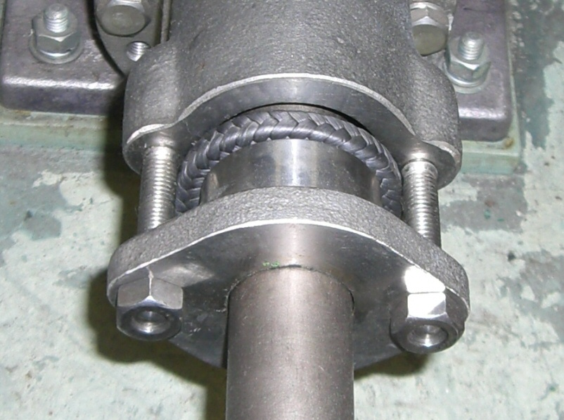 pump with gland packing (Seal_(mechanical))